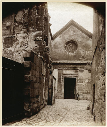 The Facade of Saint Julien le Pauvre, Paris. Albumen print, 8.5×7 in.